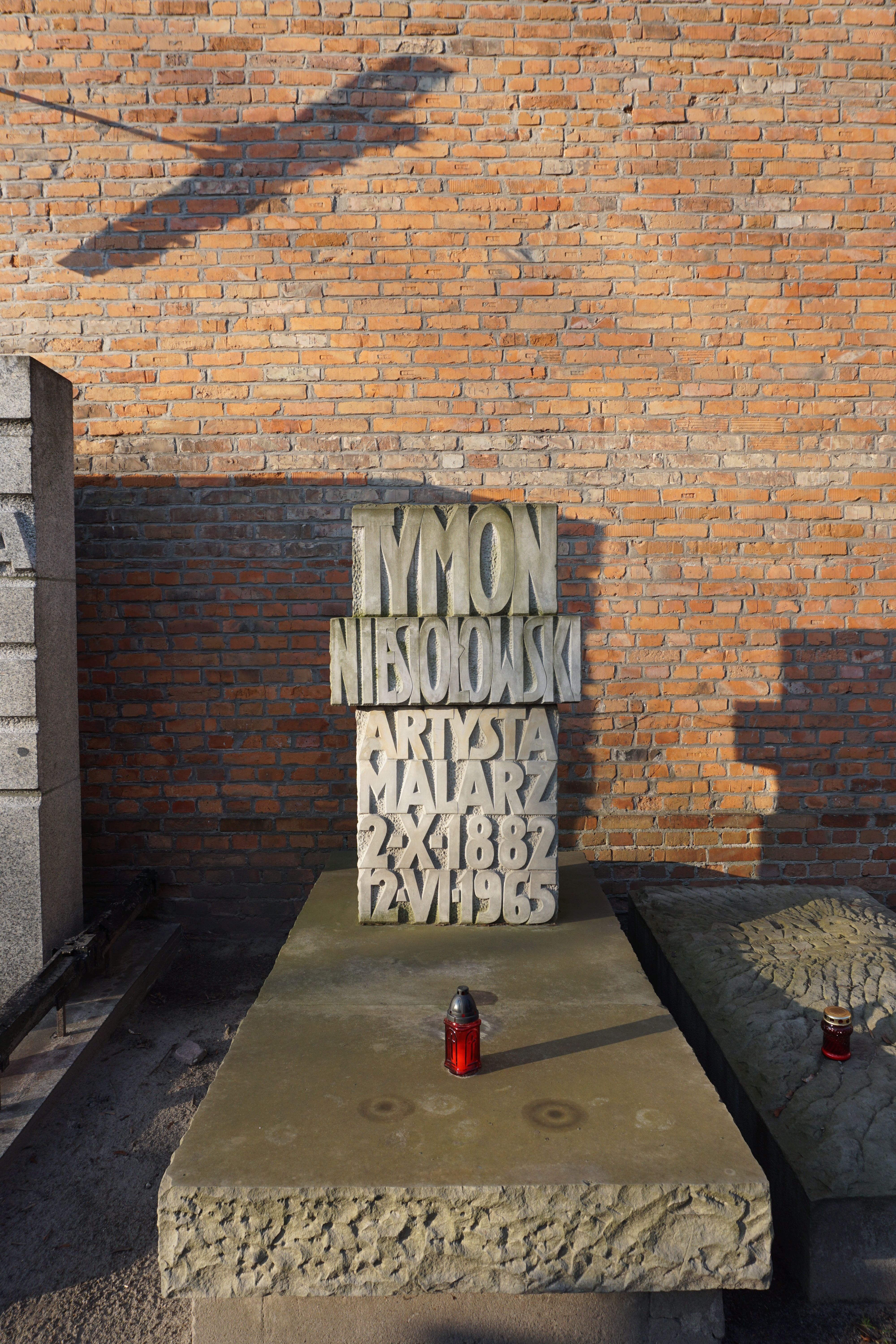 The grave of Tymon Niesiołowski at the Powązki Cemetery (Avenue of Deserved, grave 142)